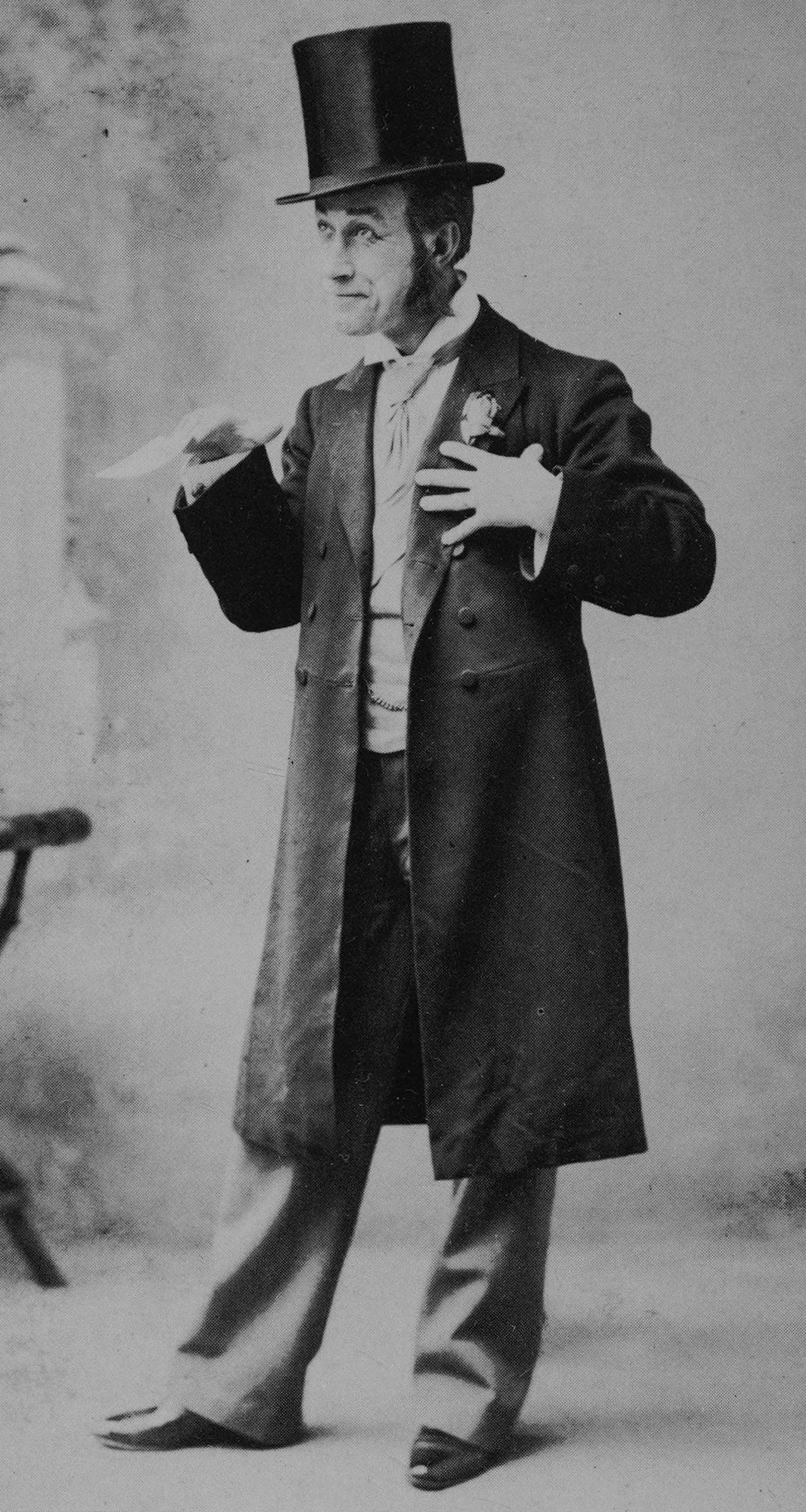 Walter Passmore as John Wellington Wells in 1898 revival of The Sorcerer